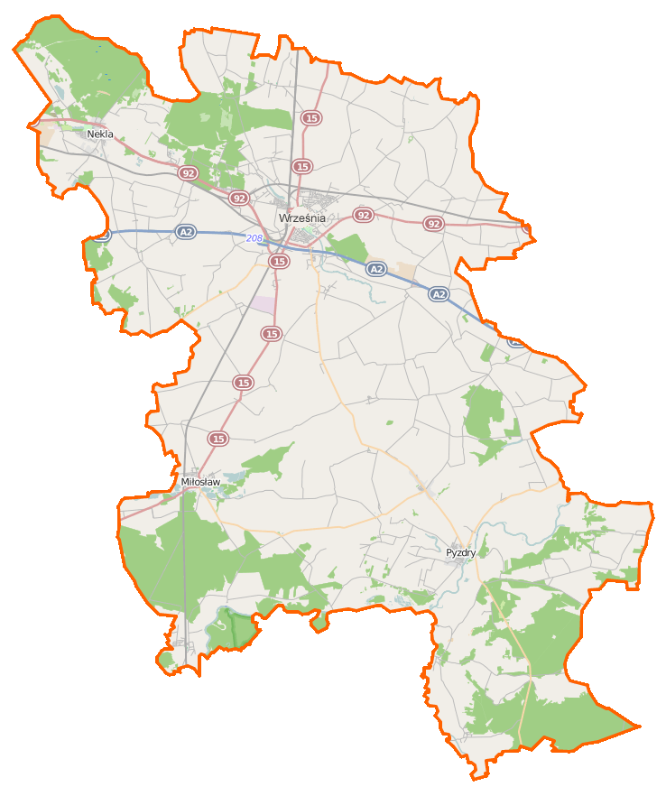 Map of Powiat wrzesiński, Poland This map of Powiat wrzesiński was created from OpenStreetMap project data, collected by the community. This map may be incomplete, and may contain errors. Don't rely solely on it for navigation. Border coordinates52.426317.3371←↕→17.843052.0554